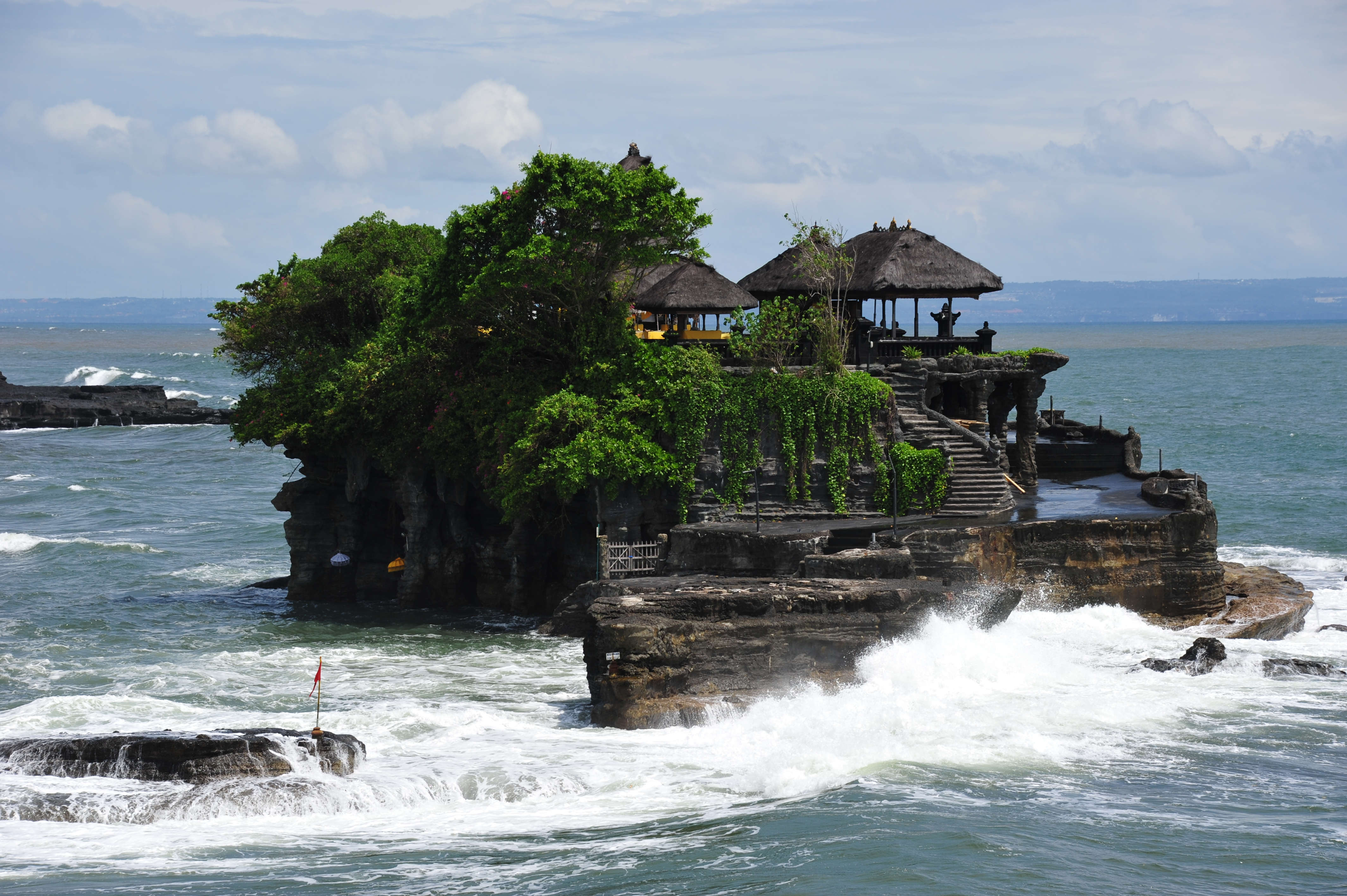 Pura Tanah Lot Bali Indonesia 2011